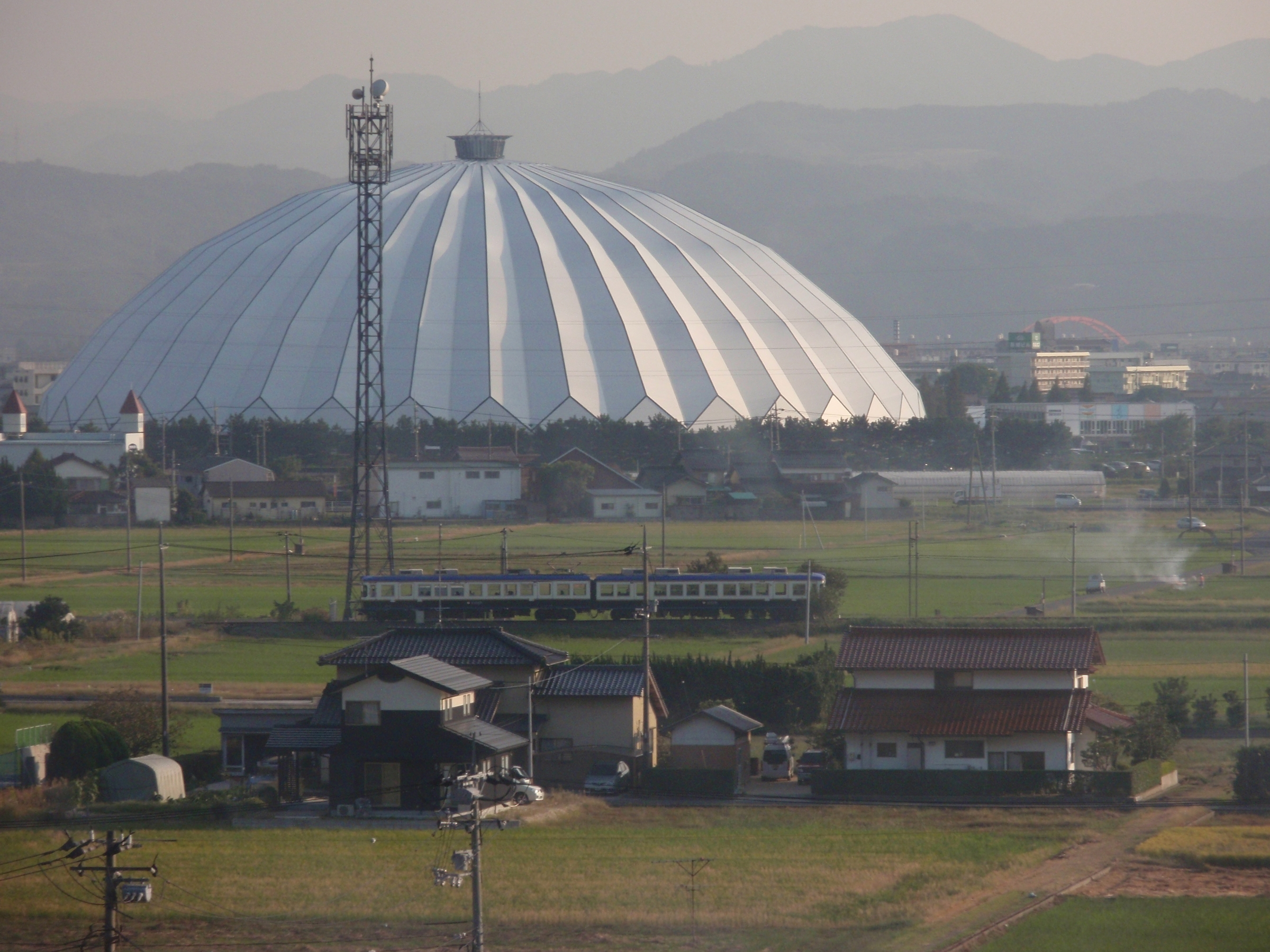 EMU Type 5000 by Ichibata Electric Railway on Taisha Line.